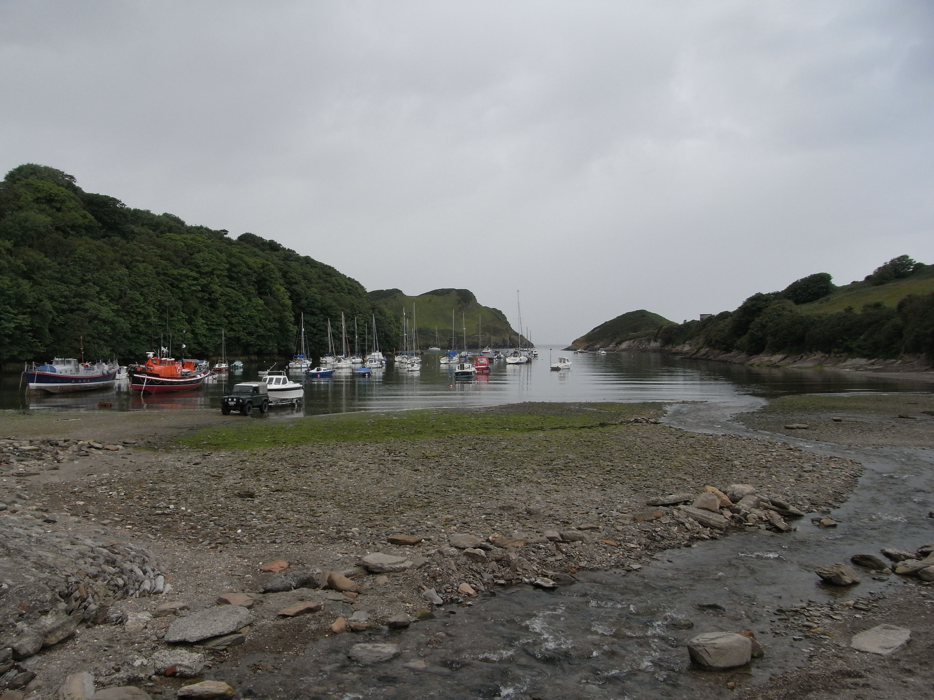 Watermouth Cove, near Ilfracombe, North Devon. Viewed from below Watermouth Castle.